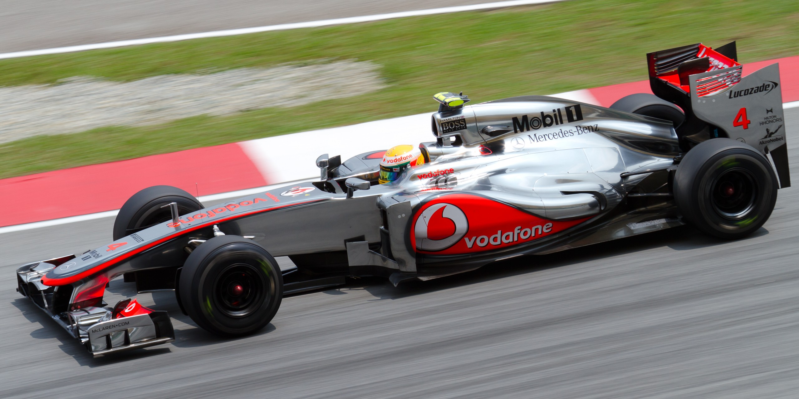 Formula One 2012 Rd.2 Malaysian GP: Lewis Hamilton (McLaren) during the second practice session on Friday.